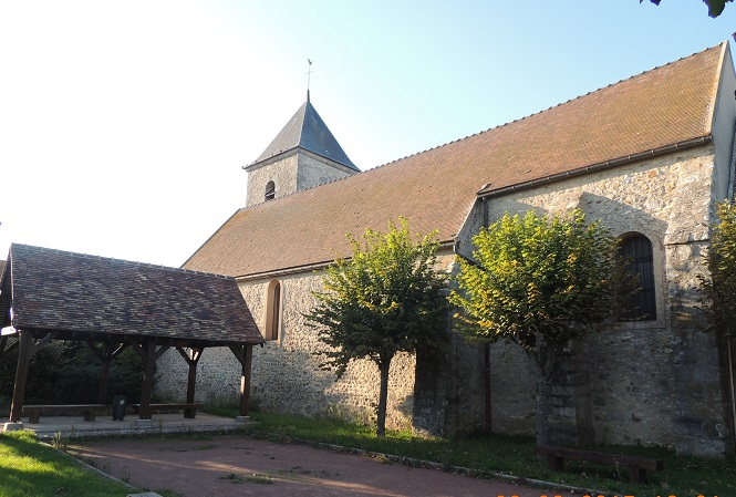 Church and porch of Montereau sur le Jard